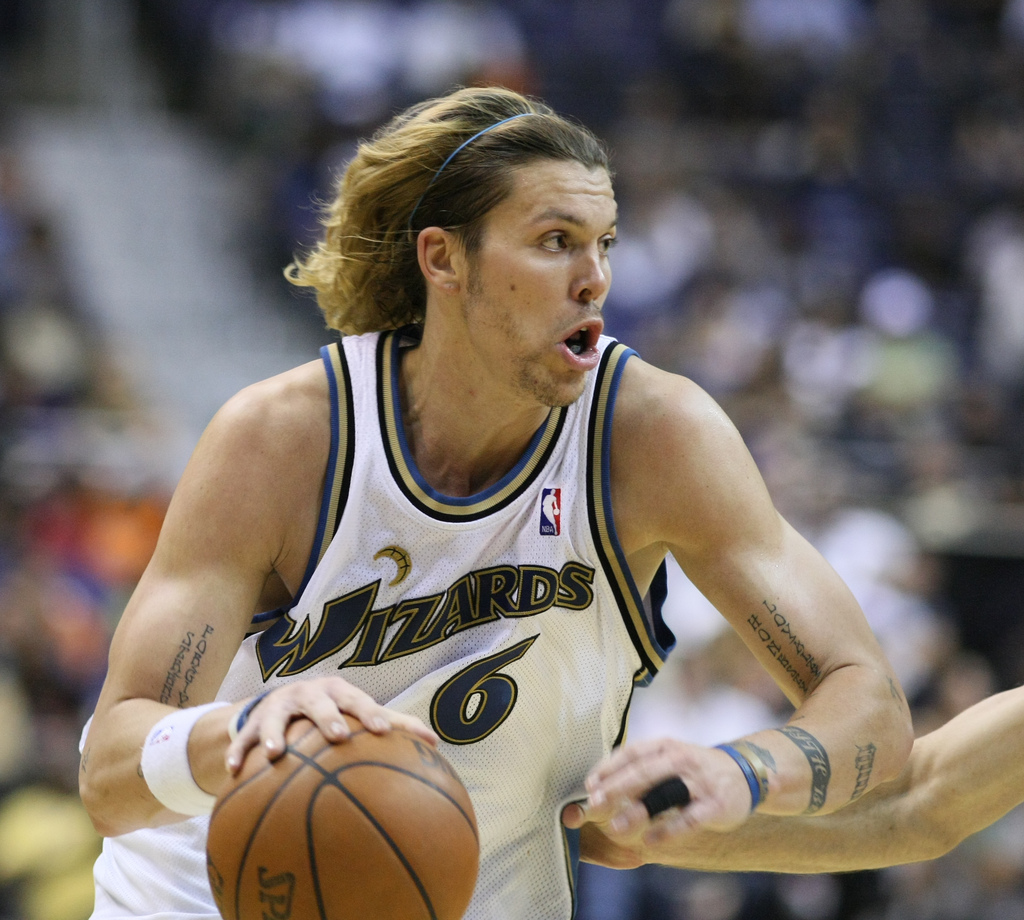 Mike Miller, basketball player